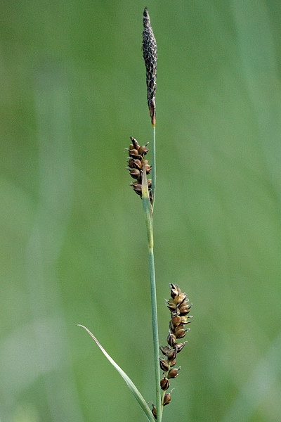 Carex panicea from Commanster, Belgian High Ardennes .